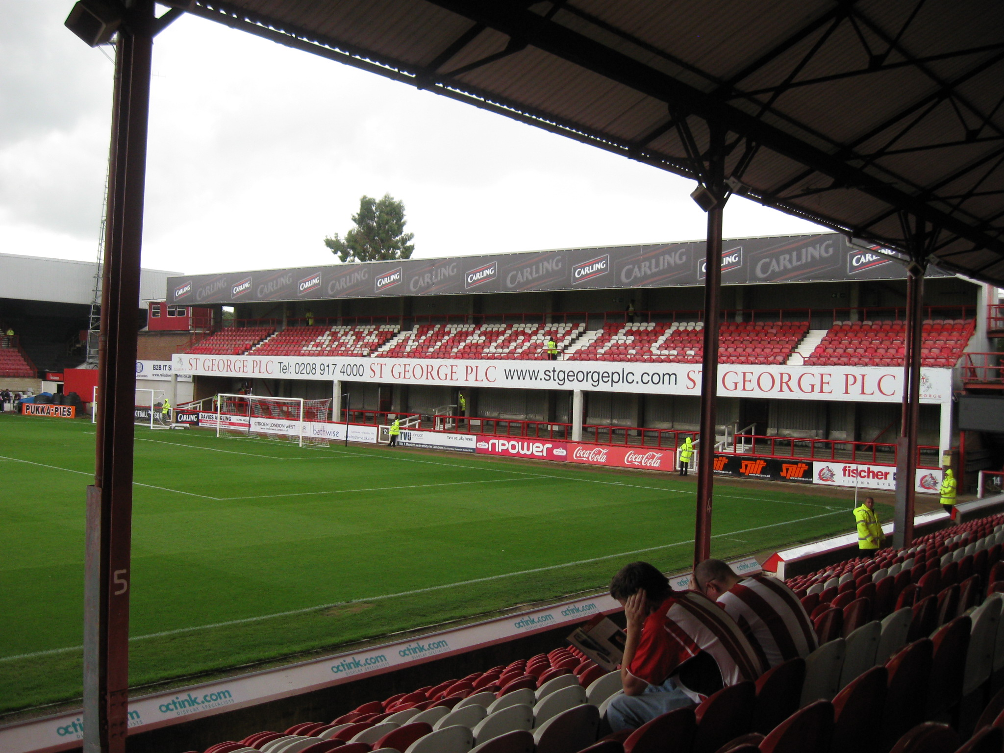 Photo of the Brook Road Stand (away end) at Griffin Park, stadium for Brentford F.C.. Taken well before the kick-off of Brentford v. Walsall in a League One match on 14 August 2010.